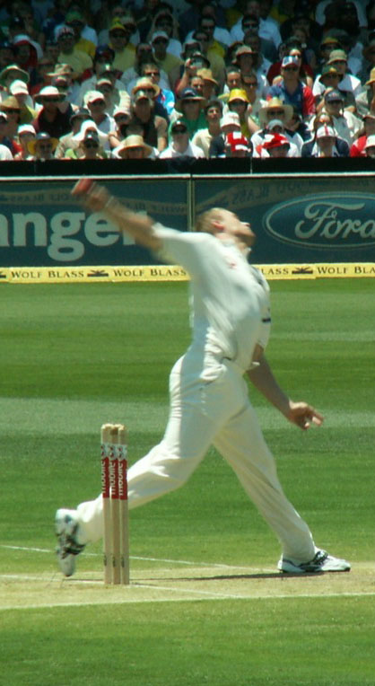 crop of [:Image:Andrew Flintoff bowling.jpg]